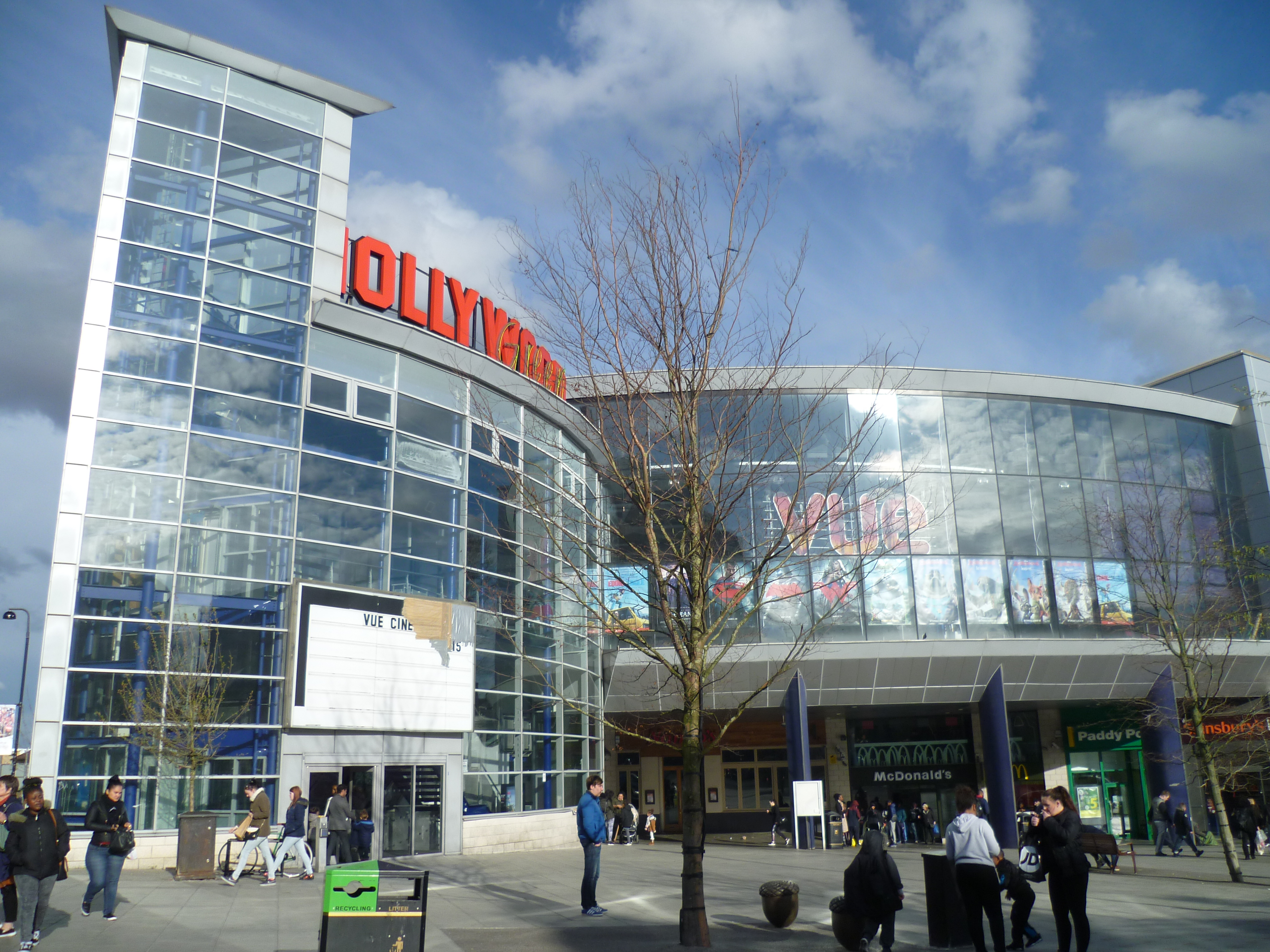 London